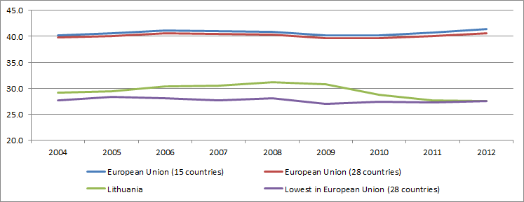 Total receipts from taxes and social contributions (including imputed social contributions) after deduction of amounts assessed but unlikely to be collected, expressed as % of GDP Souce: Eurostat